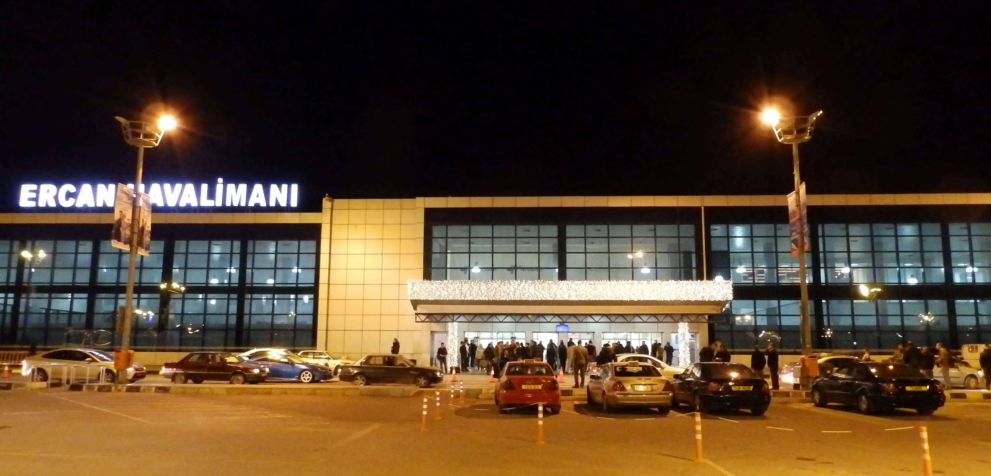 Airside view of the passenger terminal at Ercan International Airport, Northern Cyprus.